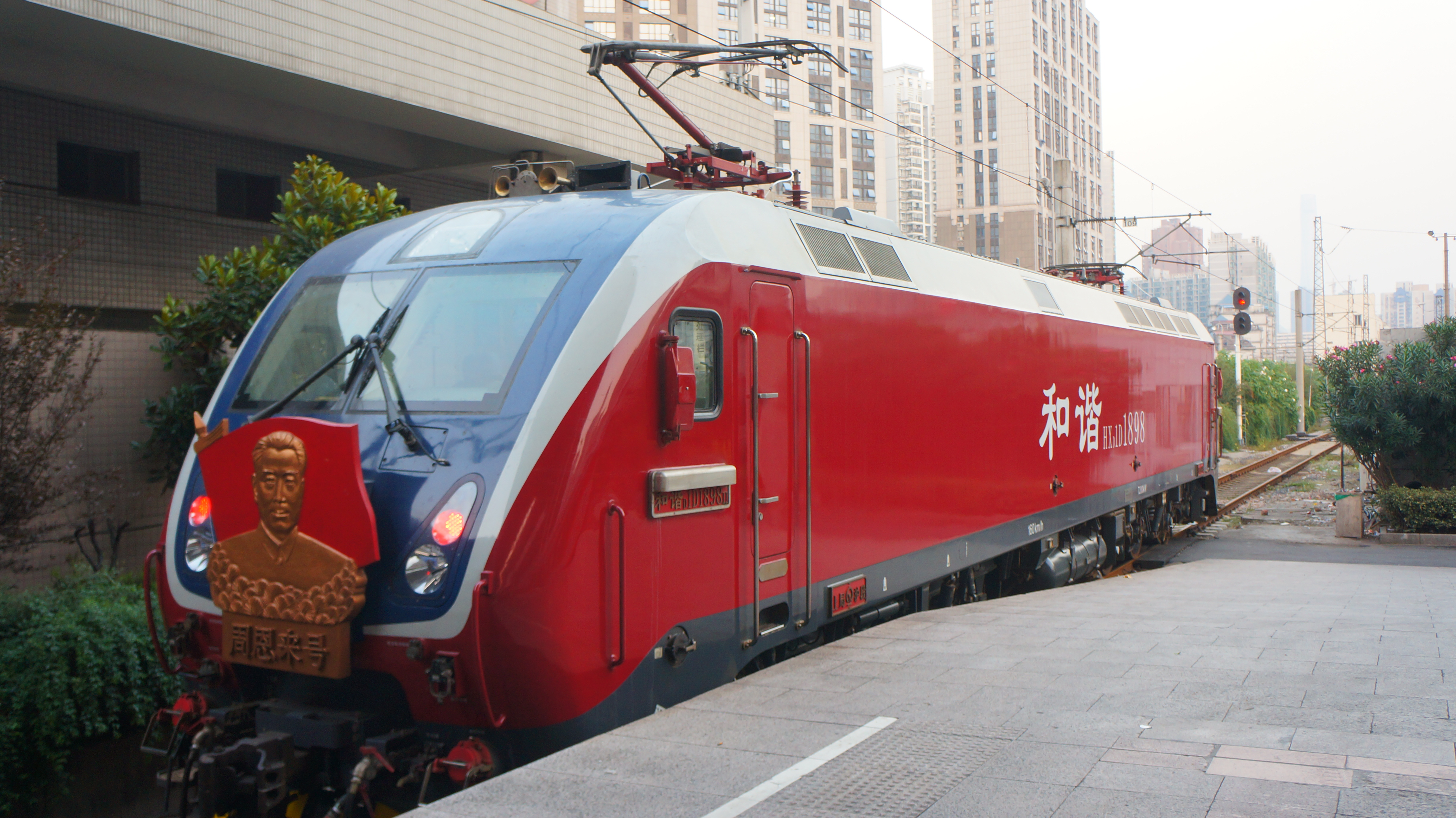 The locomotive HXD1D of China Railways,with the title and the avatar relief of "Premier Zhou Enlai" finished its attendance task, and shunts way from Train No.T7605 and back drive back to Shanghai Locomotive Depot from Platform No.13 in Shanghai Railway Station.